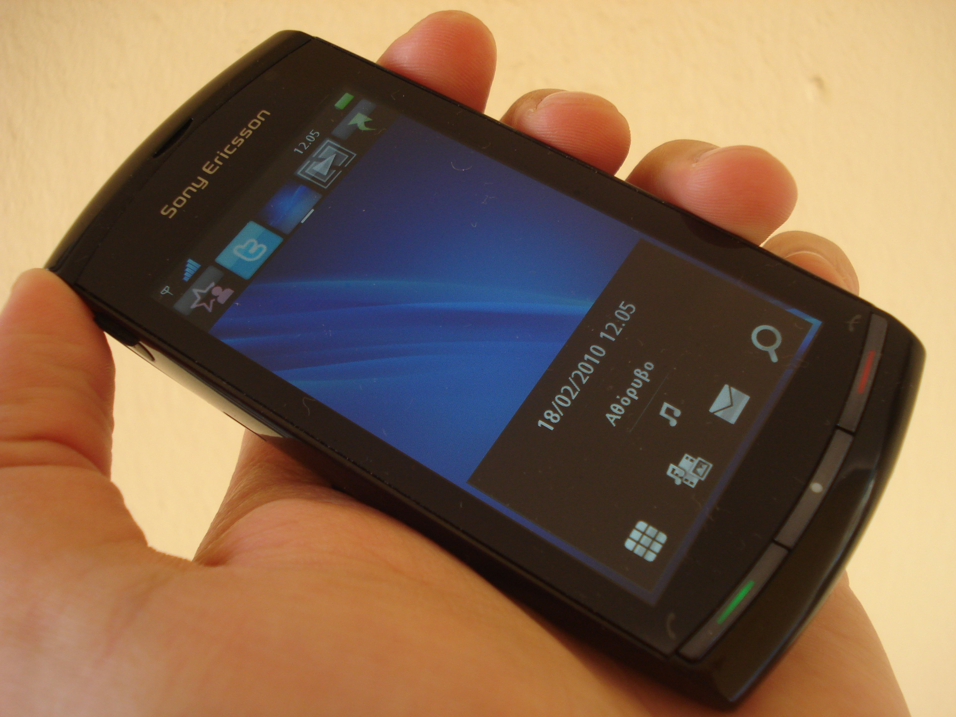 Sony Ericsson Vivaz™ Phone